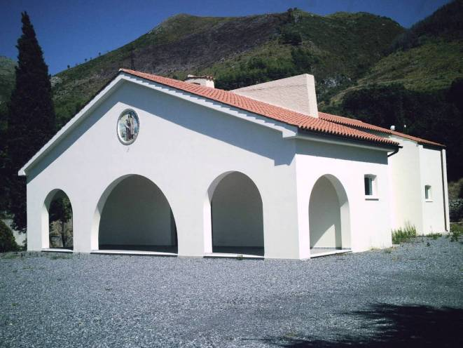 church of Marina